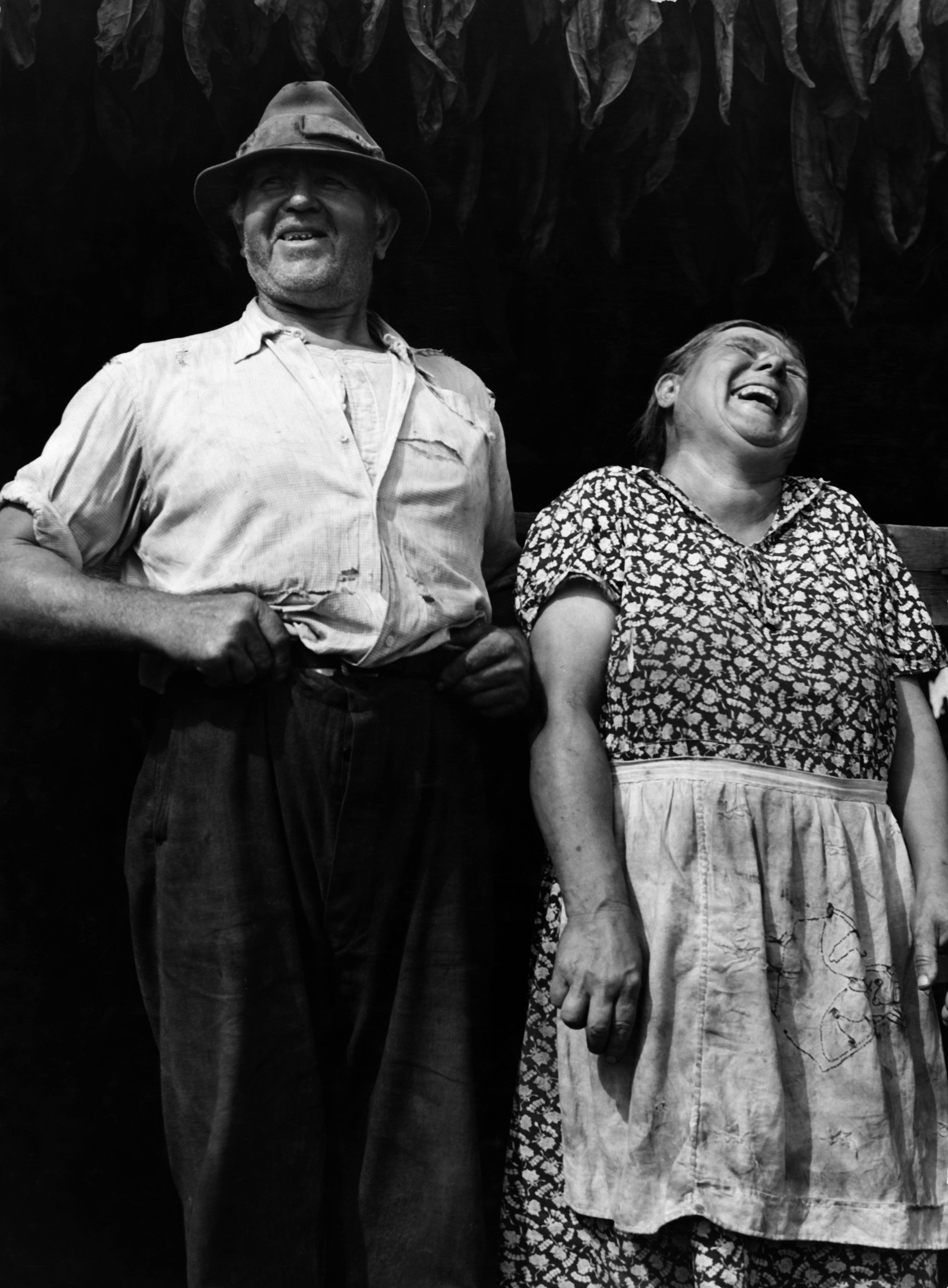 Mr. and Mrs. Andrew Lyman, Polish tobacco farmers near Windsor Locks, Connecticut.